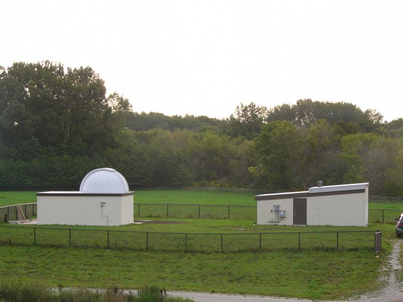 Copyright (c) 2006 by Author, Drew Carhart